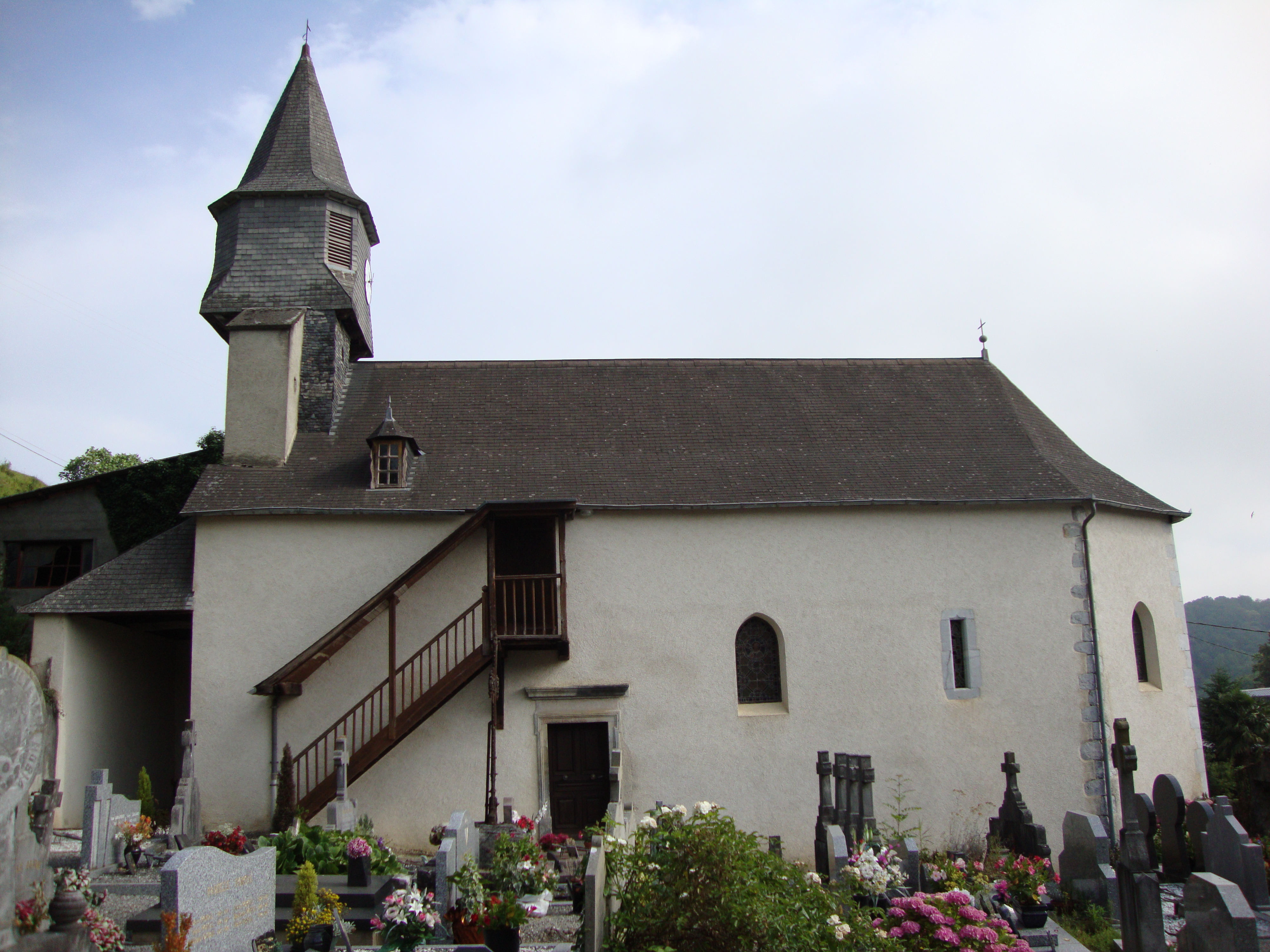 Ossas (Ossas-Suhare, Pyr-Atl,_Fr)'church with outside staircase